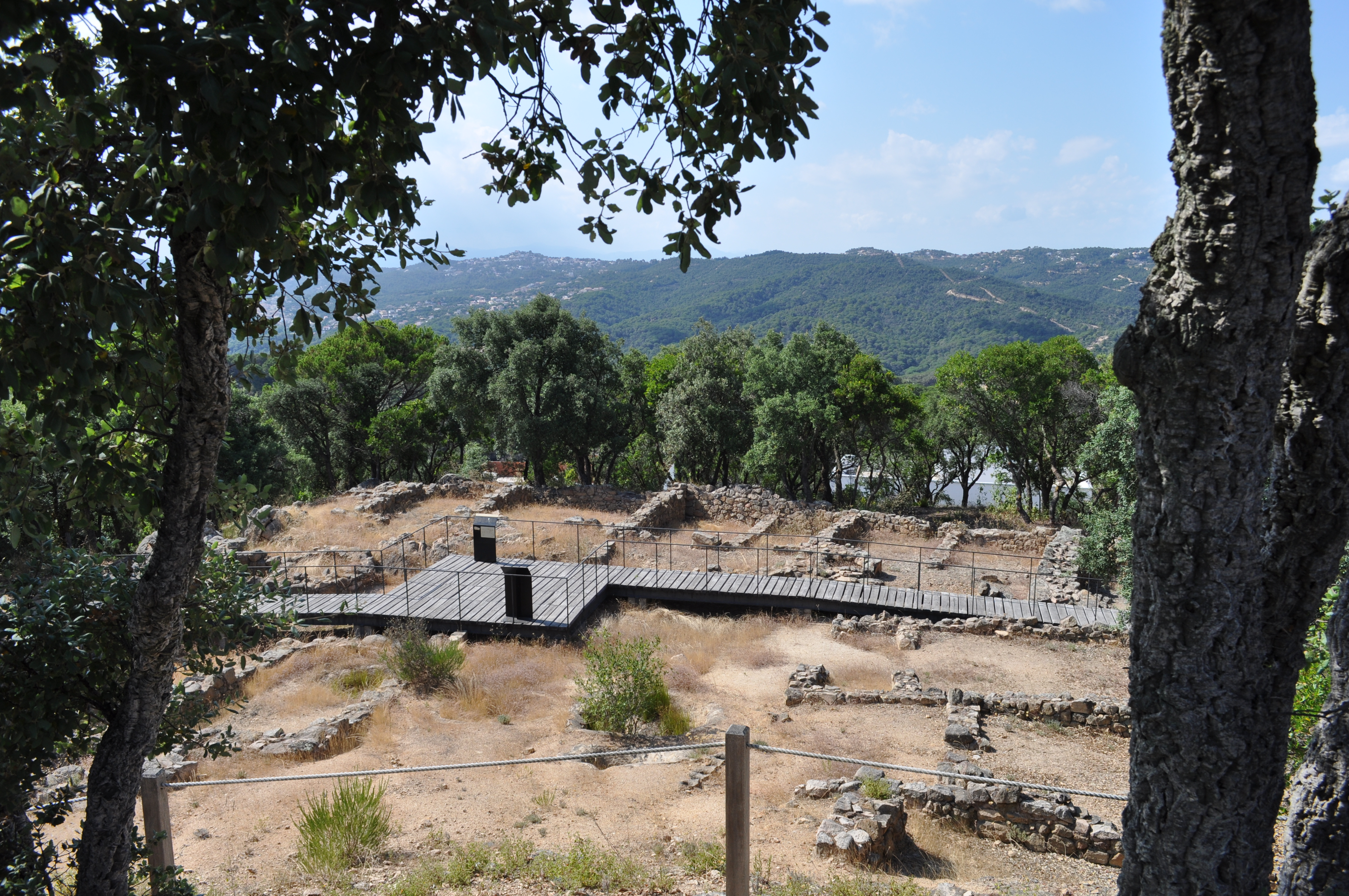 Puig de Castellet, iberian fortification near Lloret de Mar